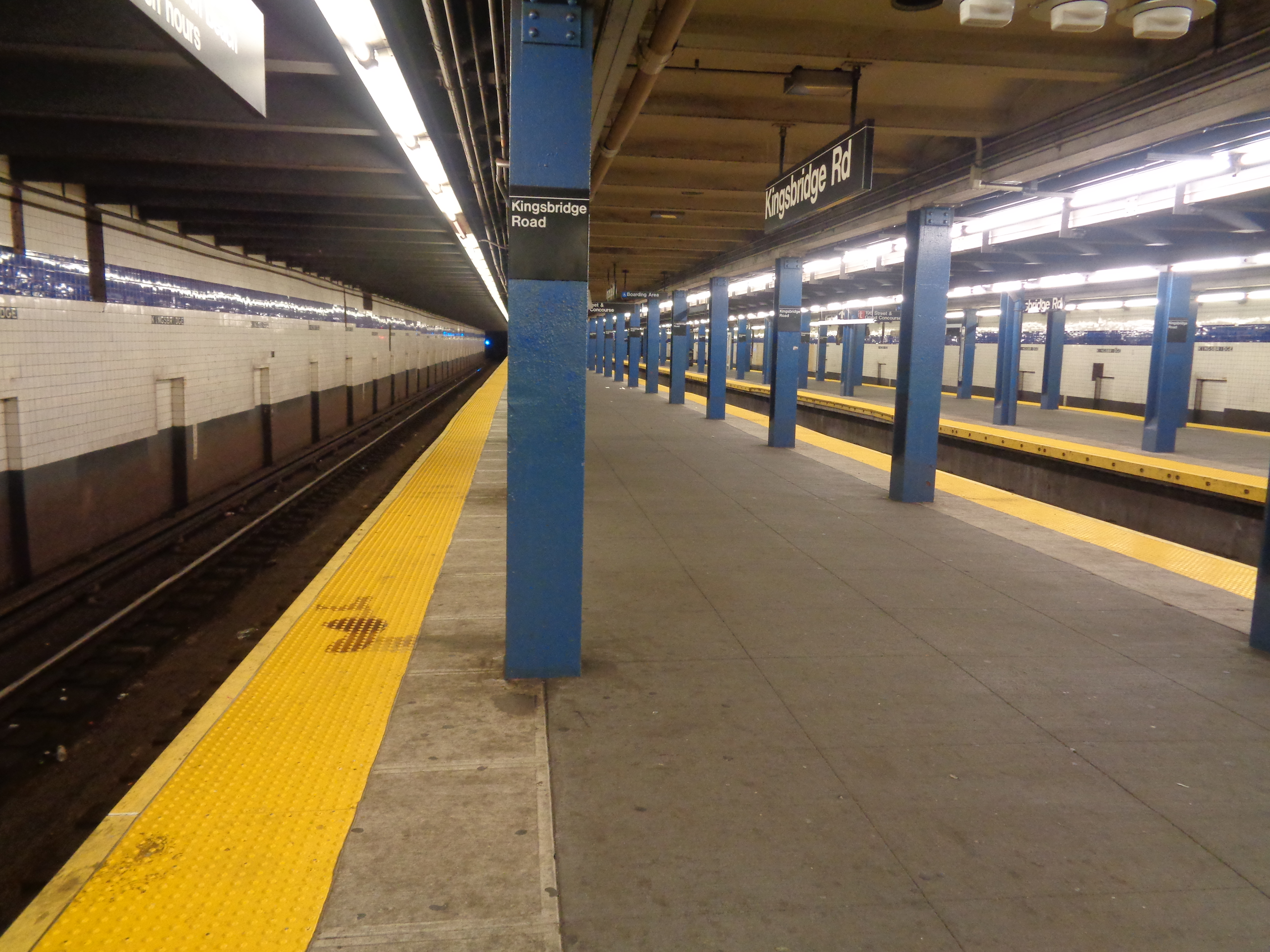 Looking down the southbound platform of the Kingsbridge Road station in the Bronx.